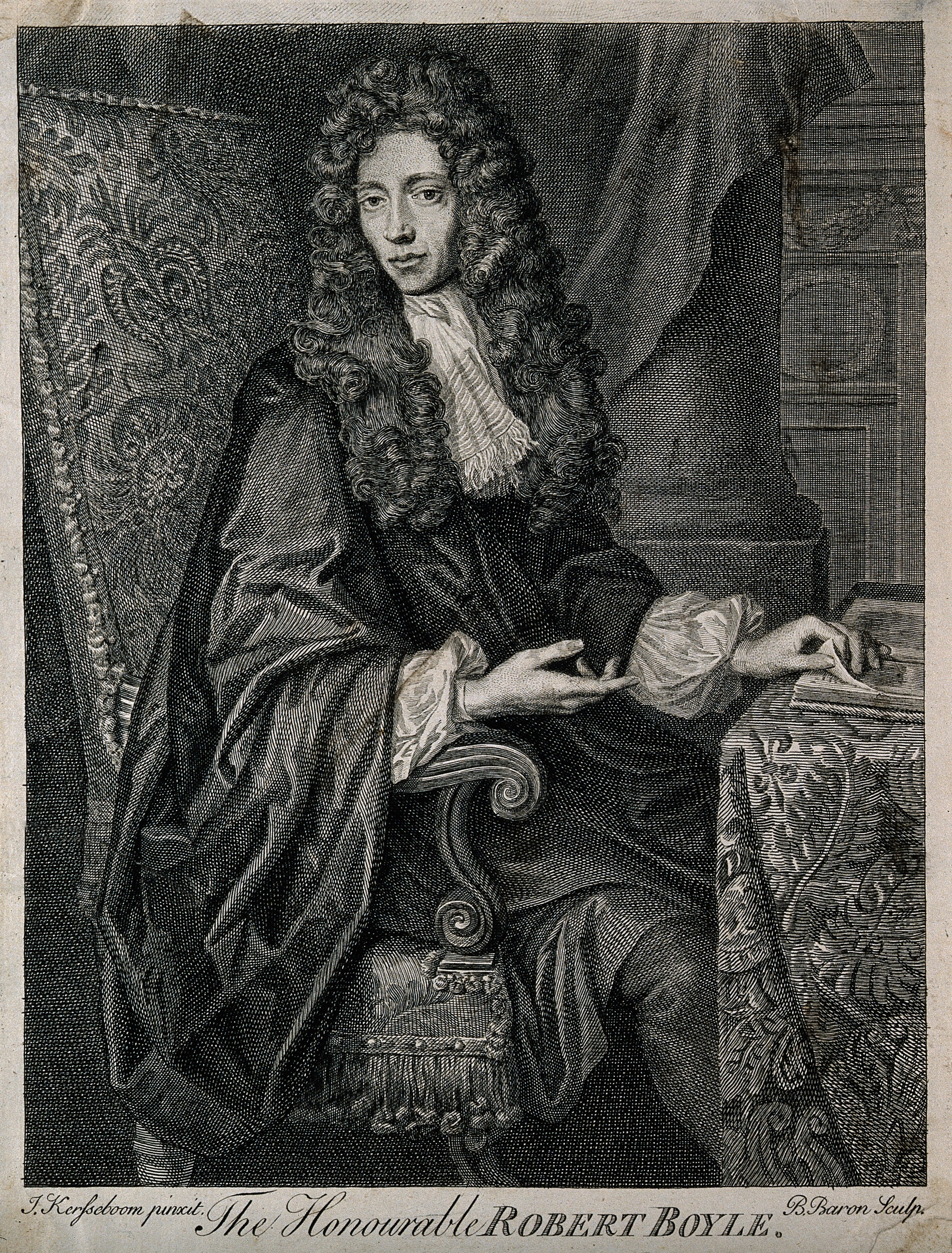 Portrait of The Honourable Robert Boyle (1627 - 1691), Irish natural philosopher Iconographic Collections Keywords: engravings; Robert Boyle; Bernard Baron; Frederic Kerseboom; portrait prints; boyle, robert, 1627-1691